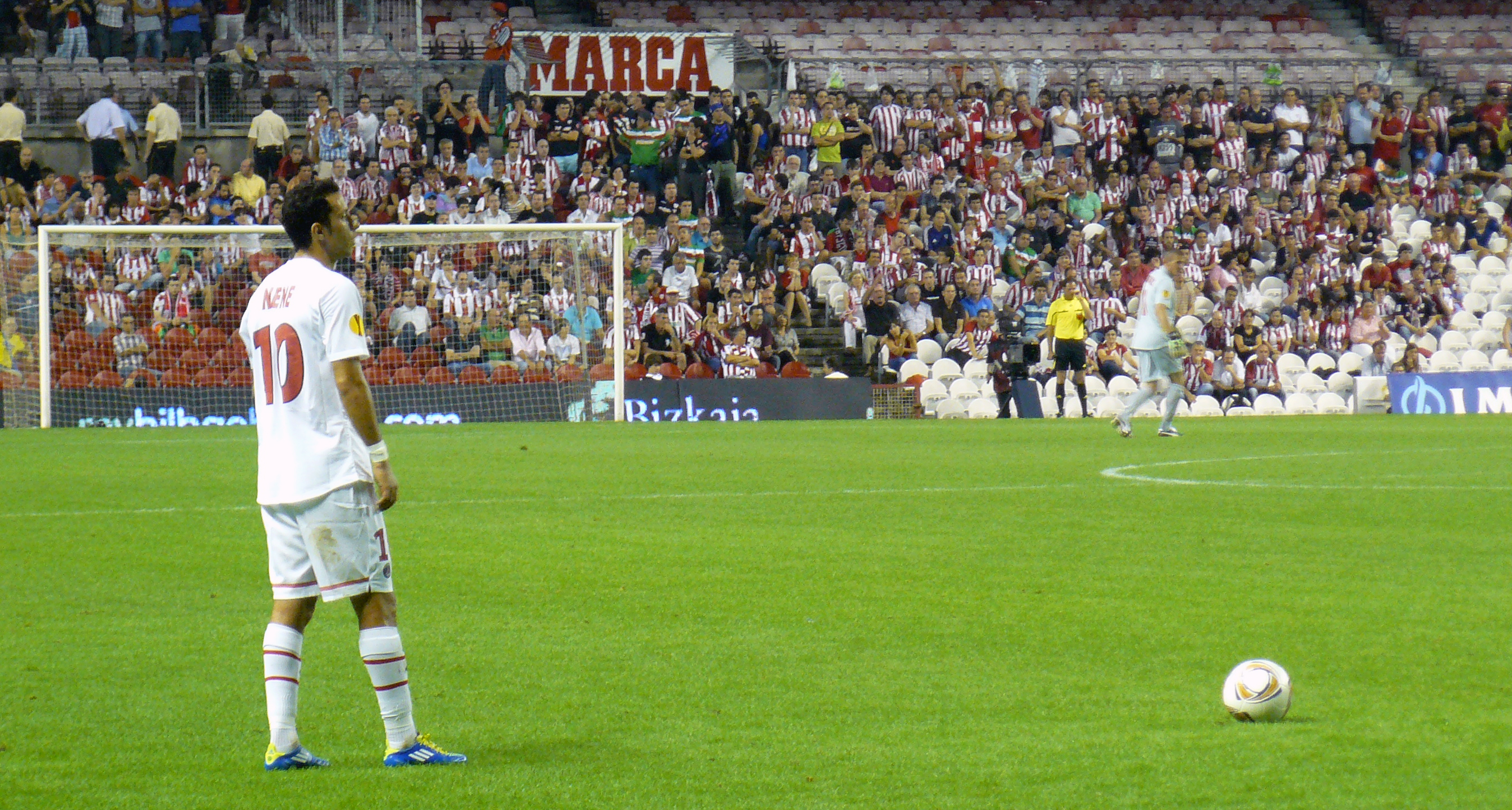 Nenê, during PSG - Athletic Bilbao, for the Europa League.